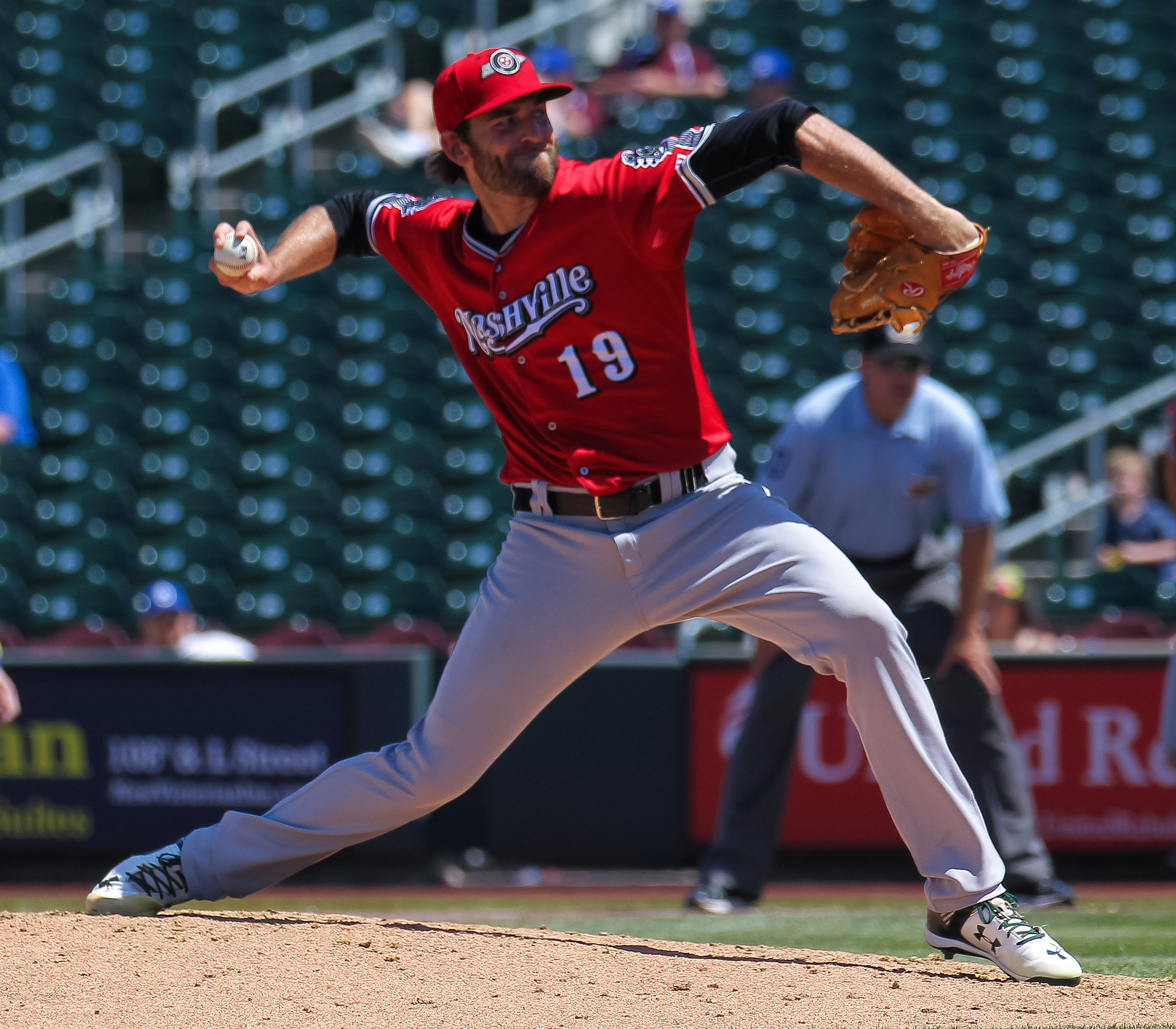 Chris Jensen of the Nashville Sounds pitching on July 16, 2017; by Minda Haas Kuhlmann USAGE INSTRUCTIONS: You are welcome to share or publish to your own site or social media account, but you MUST credit me, Minda Haas Kuhlmann, or by my Twitter handle (@minda33) or Instagram (minda.haas).